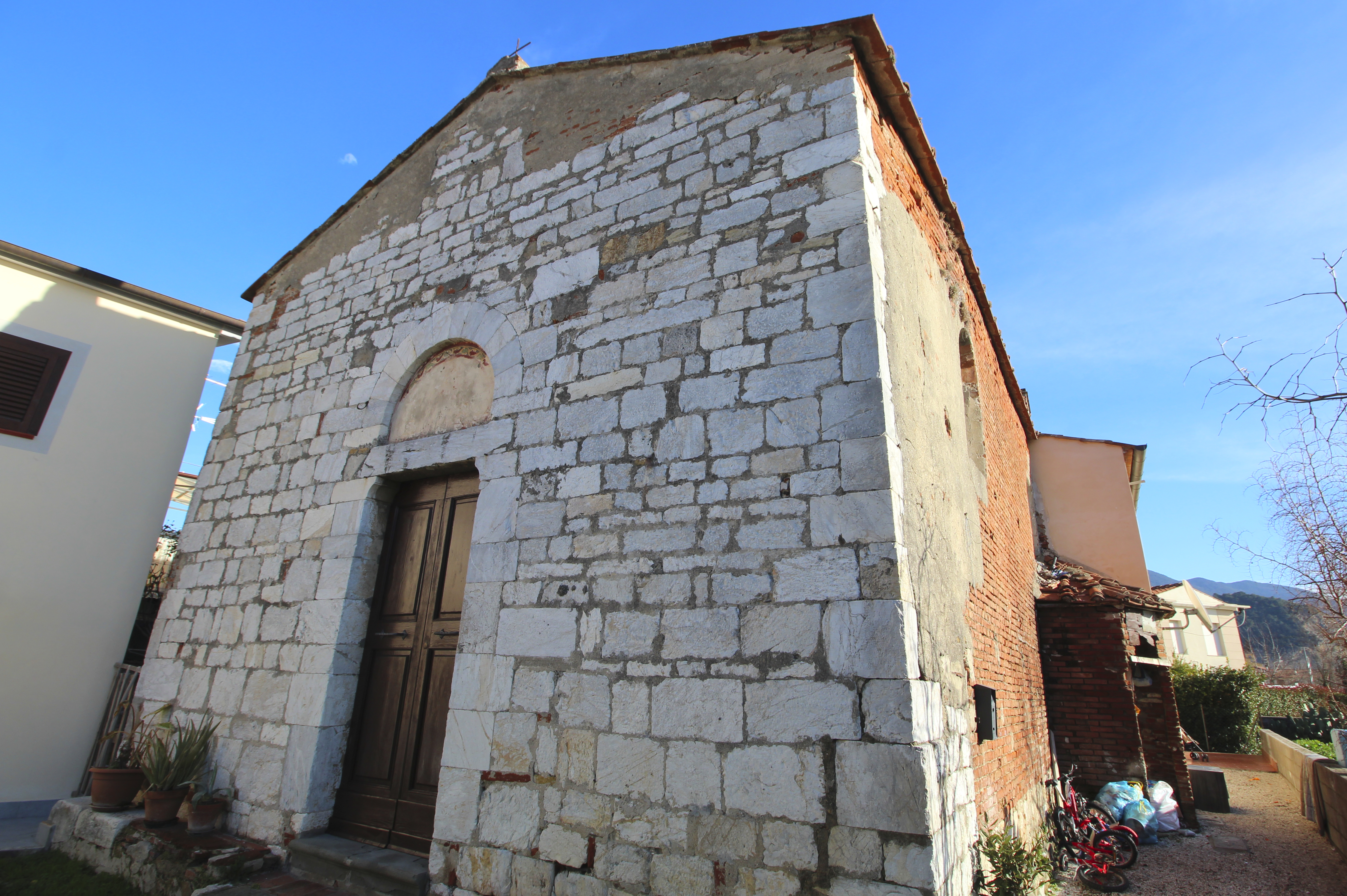 Church San Cristoforo a Bottano, Gello, hamlet of San Giuliano Terme, Province of Pisa, Tuscany, Italy